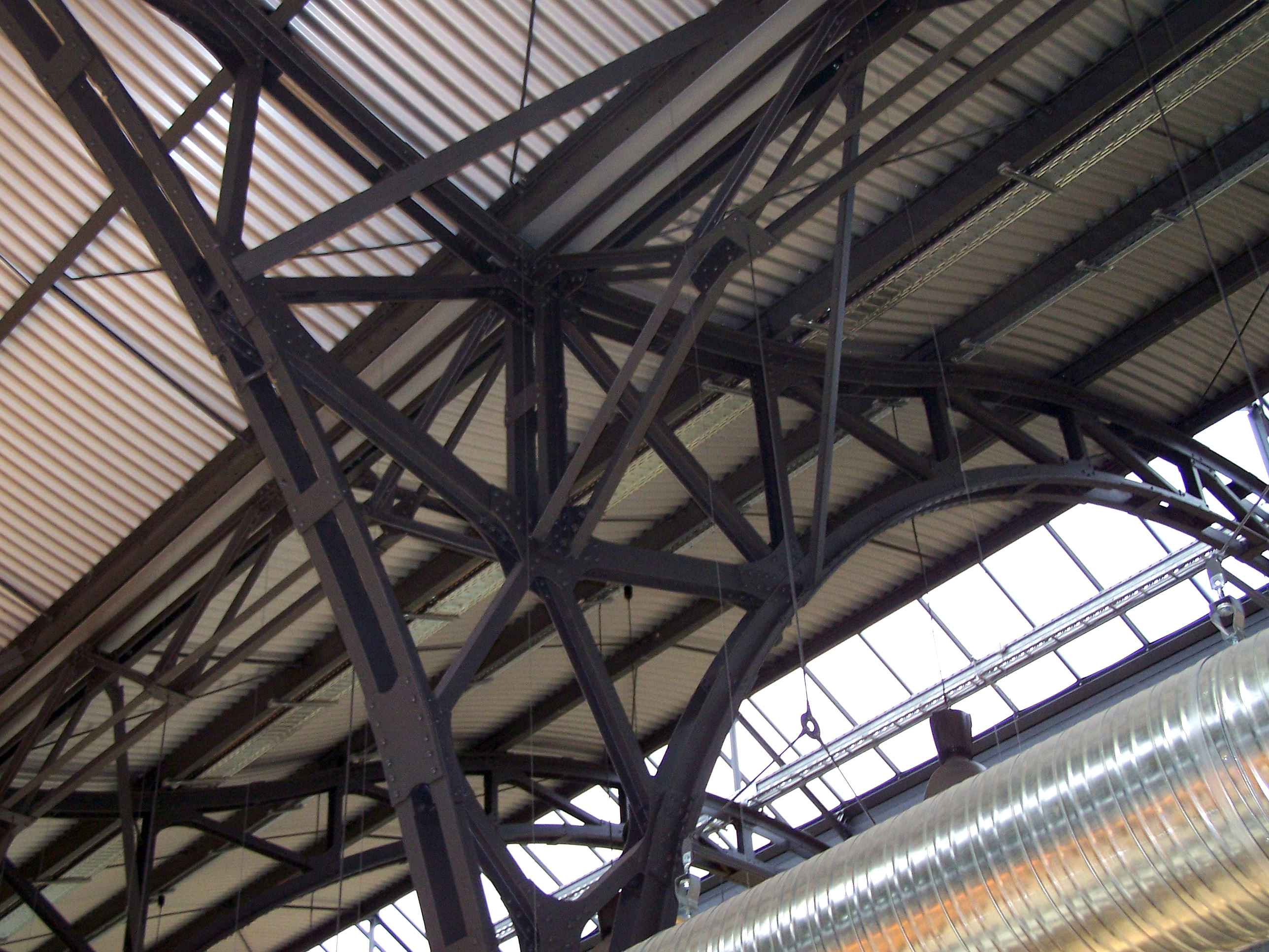 Steel grider of the hall ceiling in the former tram depot in Frankfurt am Main-Bornheim in December 2009